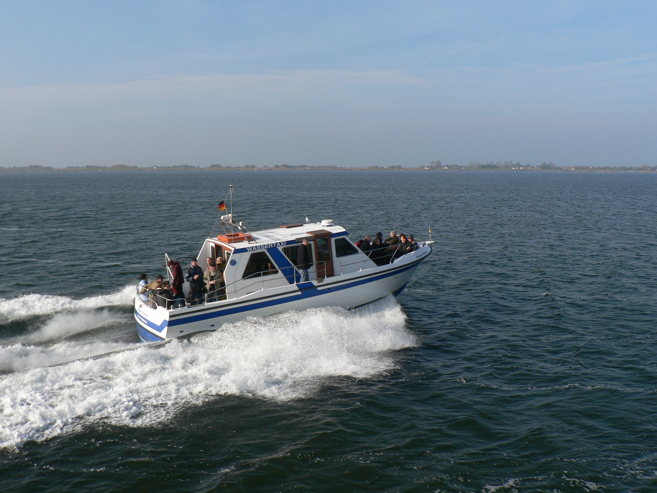 Water taxi on its way from Rügen island to the island of Hiddensee, October 2007